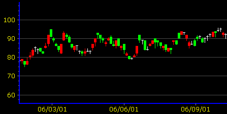 Candlestick chart; K線圖